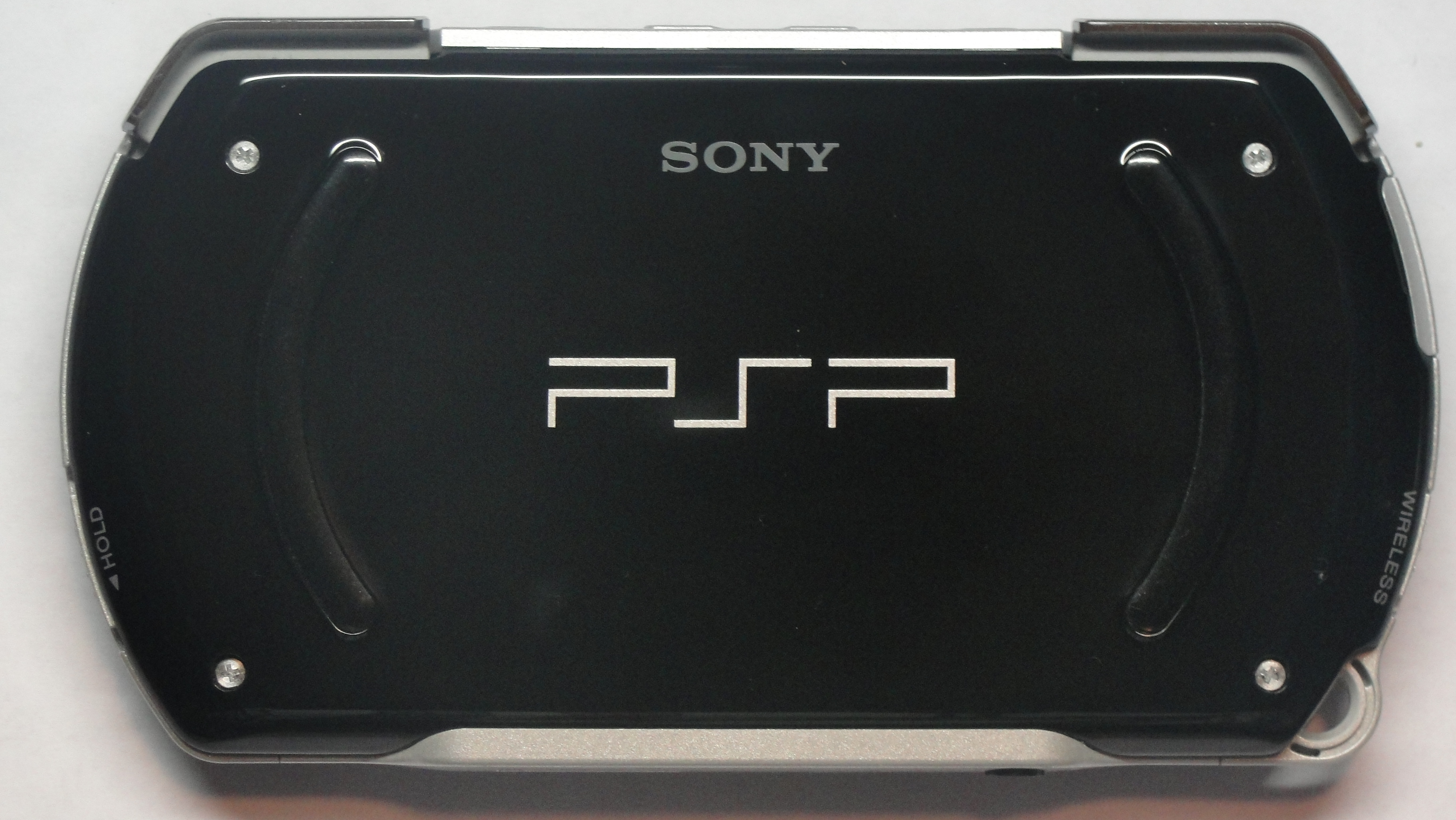 Psp Go front view